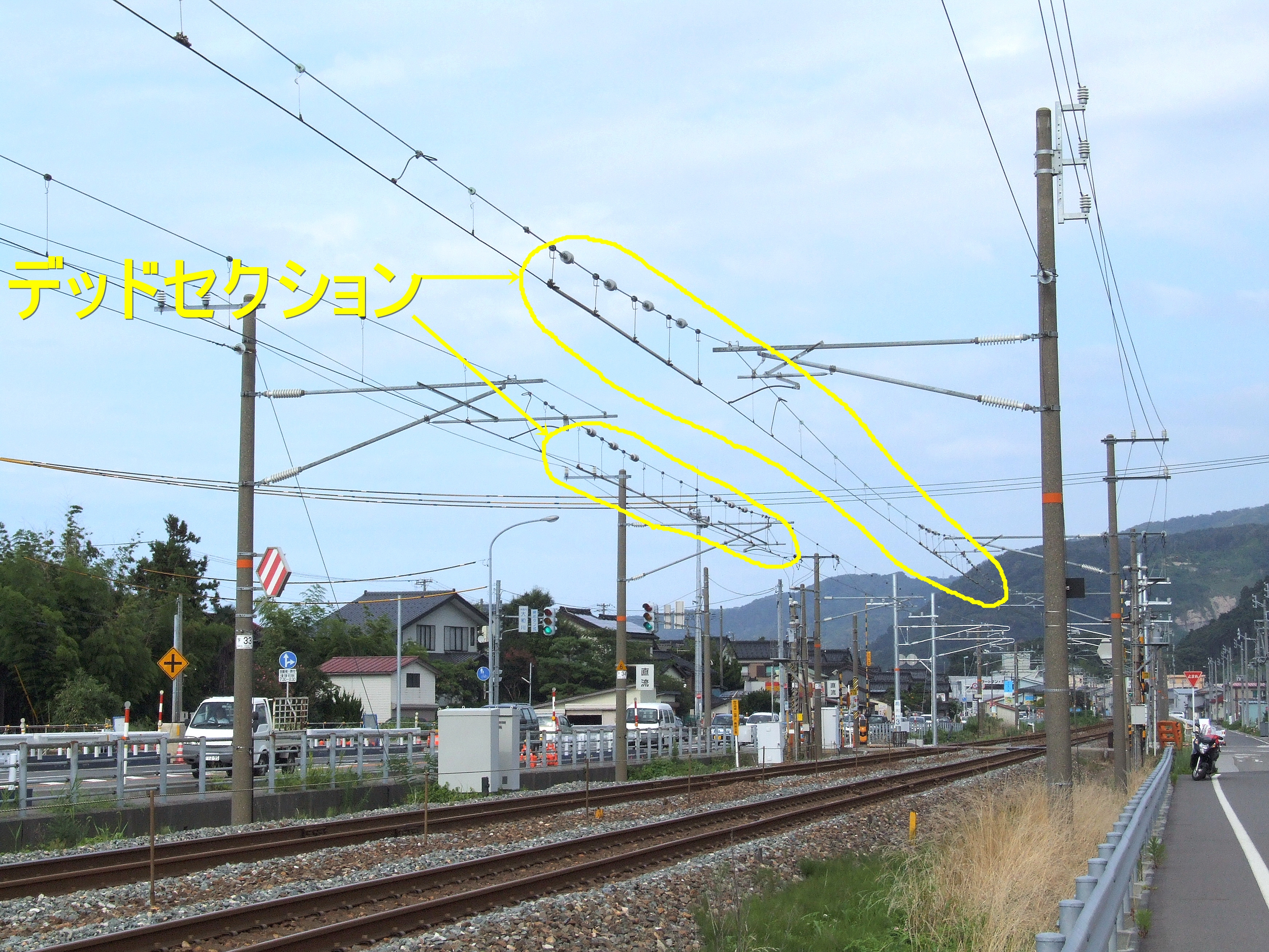 The AC/DC section on japan sea hisui Line between Itoigawa and Kajiyashiki Stations